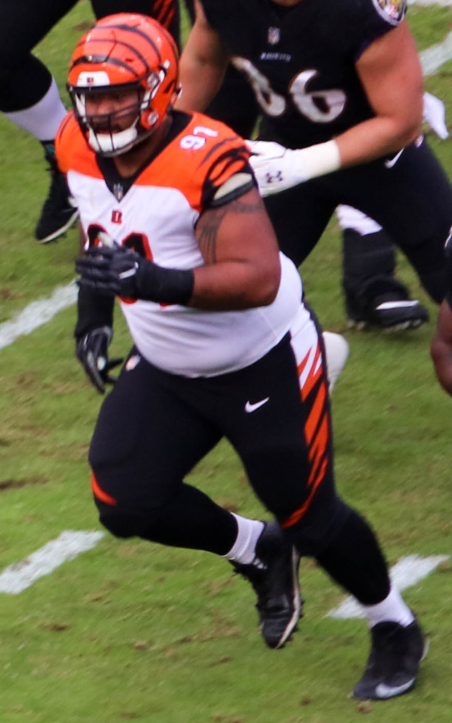 Lamar Jackson of the Baltimore Ravens runs the ball against the Cincinnati Bengals during a 2018 game at M&T Bank Stadium in Baltimore.